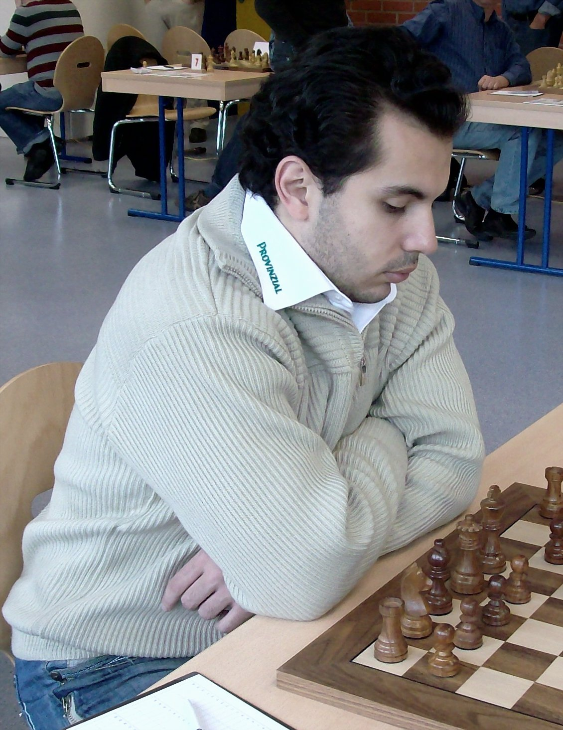 Sergey Grigoriants, chess grandmaster from Russia